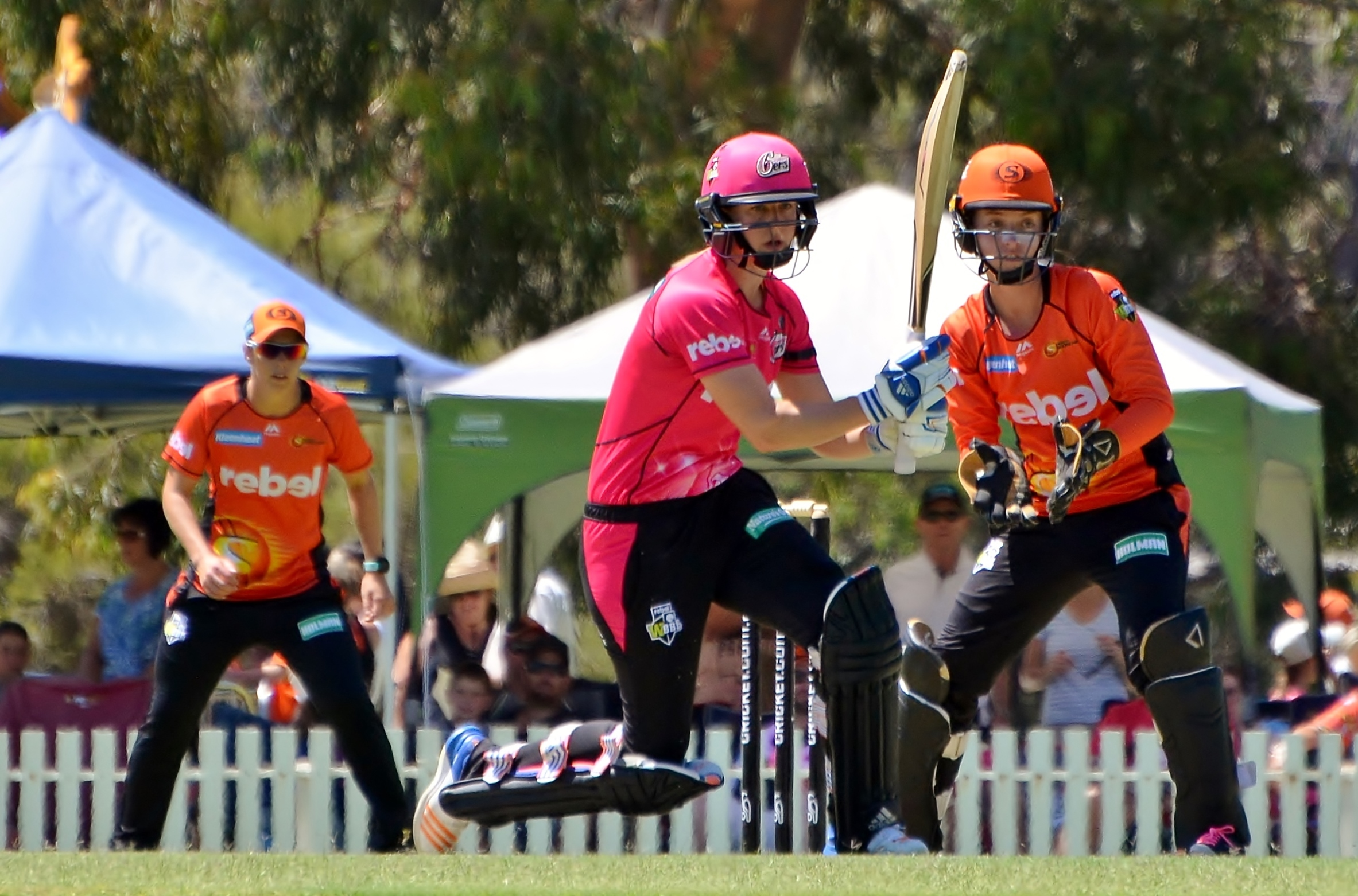 Ellyse Perry batting for the Sydney Sixers against the Perth Scorchers, in a WBBL match at Lilac Hill Park in Perth